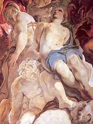 on the valut of San Lorenzo church, Castello Valsolda detail